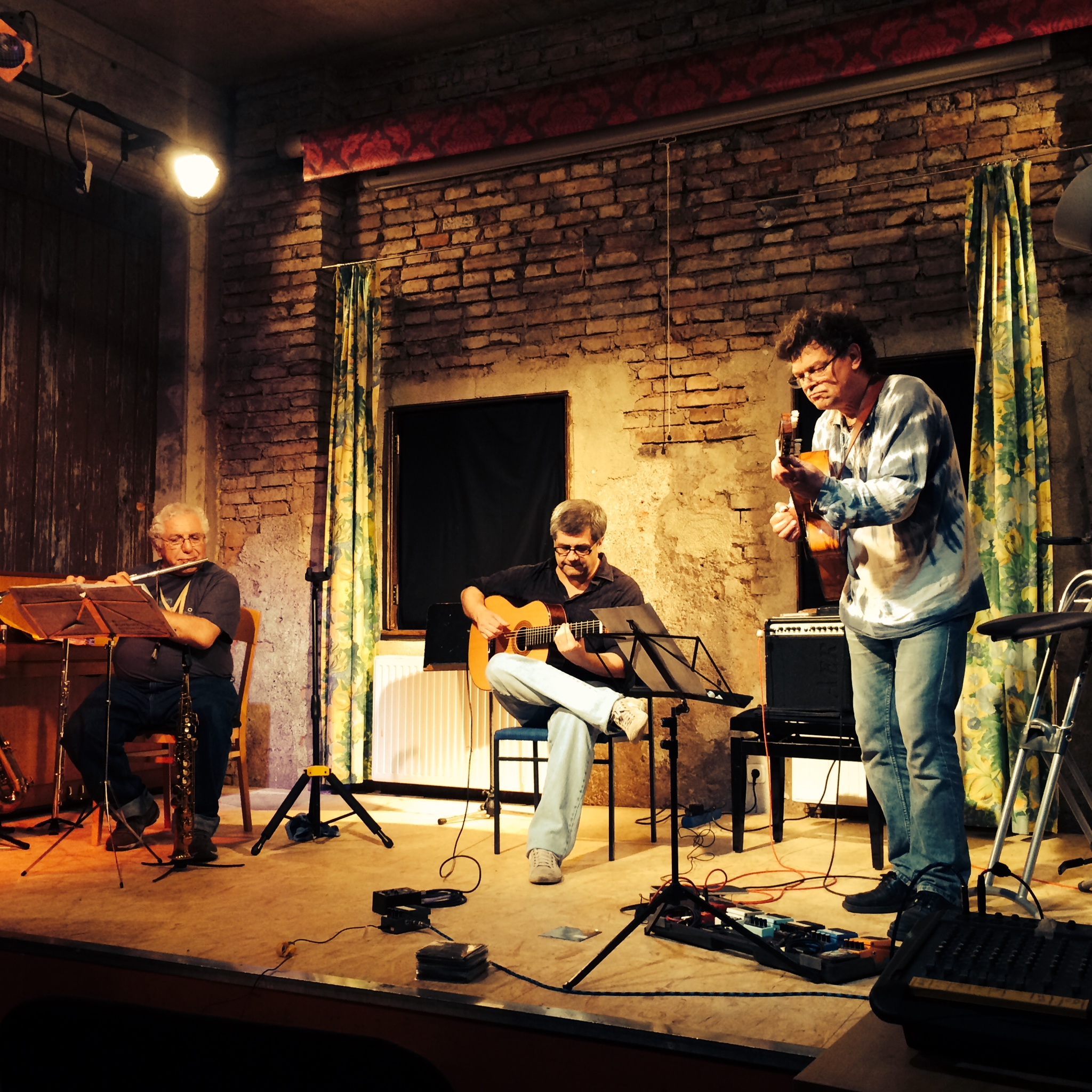 GASTMAHL mit Roger Jannotta, Marcos Davi und Thorsten Klentze 5